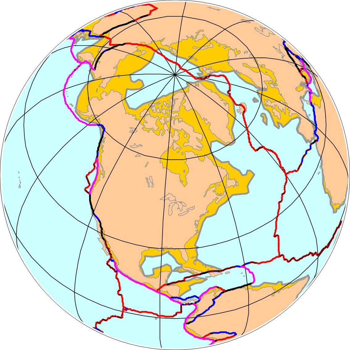 North American tectonic plate. Orthogonal projection (as seen from deep space).